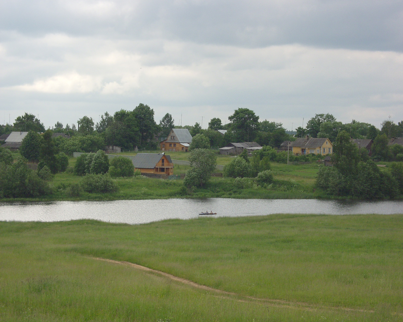 Porechye view from the northern shore